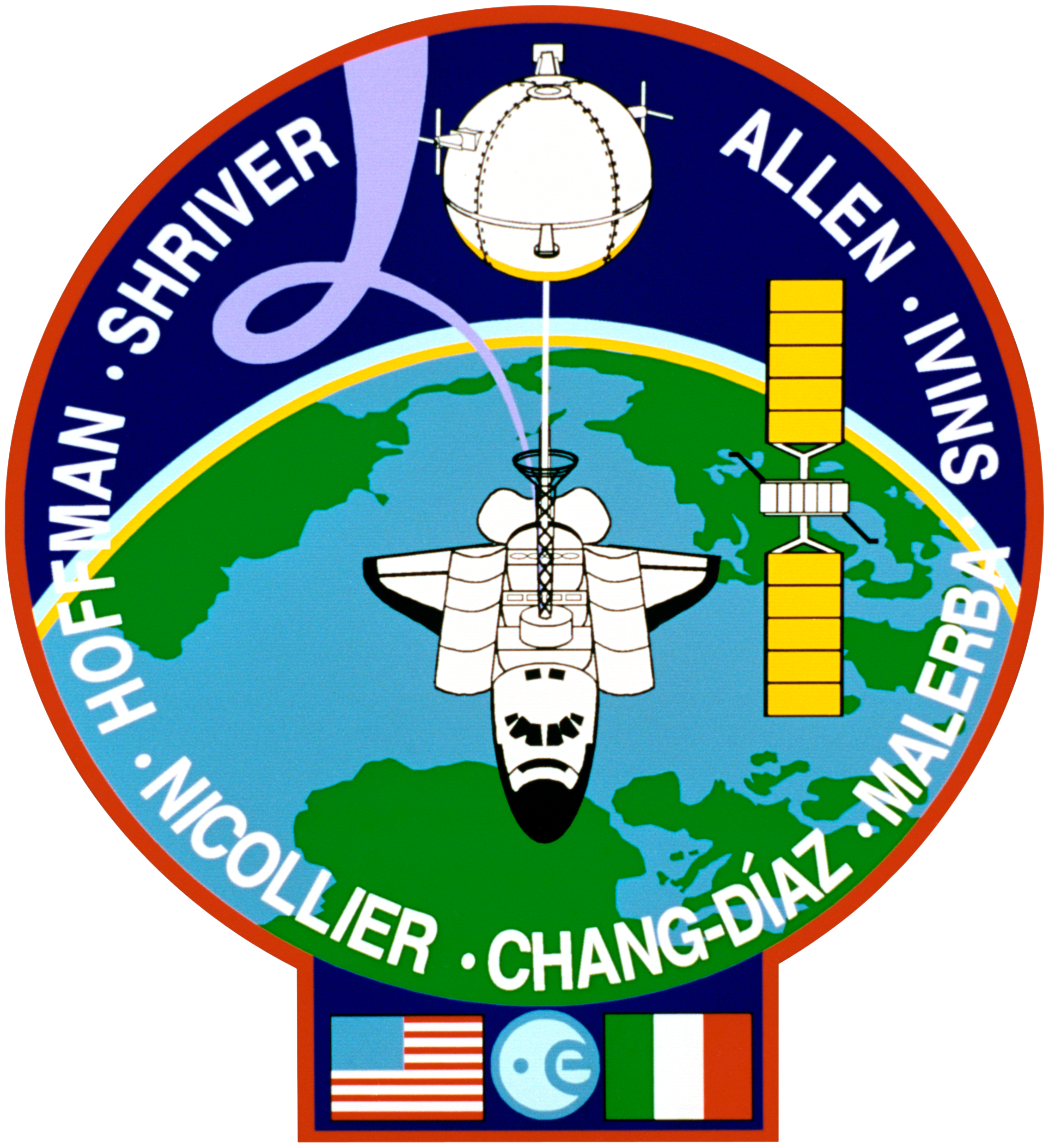 STS-46 Mission Insignia Designed by the crewmembers assigned to the flight, the STS-46 crew patch depicts the Space Shuttle Atlantis in orbit around Earth, accompanied by major payloads: the European Retrievable Carrier (EURECA) and the Tethered Satellite System (TSS- l). In the depiction, EURECA has been activated and released, its antennae and solar arrays deployed, and it is about to start its ten- month scientific mission. The Tethered Satellite is linked to the orbiter by a 20-krn. tether. The purple beam emanating from an electron generator in the payload bay spirals around Earth's magnetic field. Visible on Earth's surface are the United States of America and the thirteen-member countries of the European Space Agency (ESA), in particular, Italy -- partner with the USA in the TSS program. The American and Italian flags, as well as the ESA logo, further serve to illustrate the international character of STS-46.